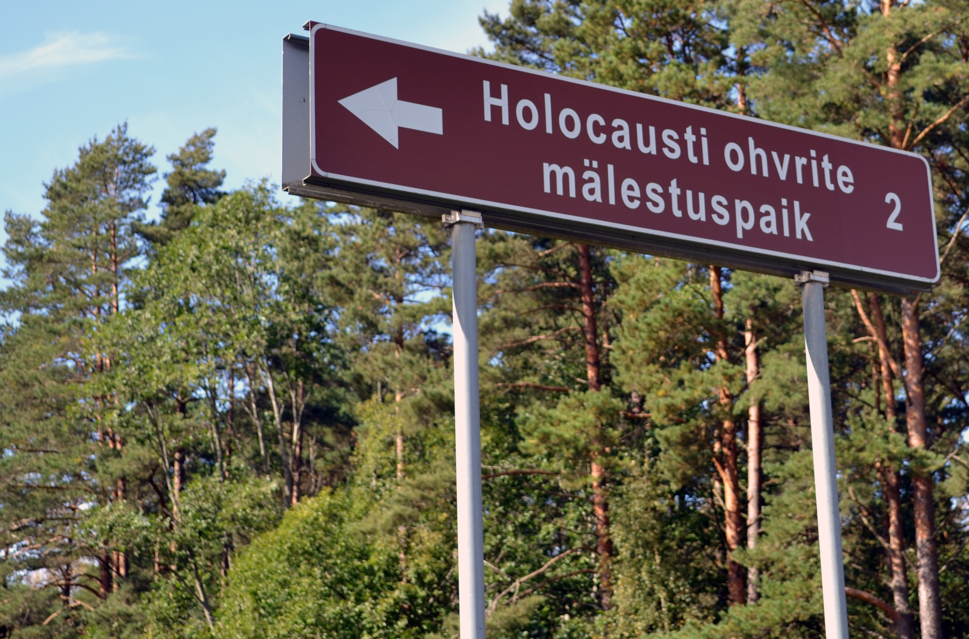 Klooga holocaust memorial signpost in Kloogaranna, Estonia.